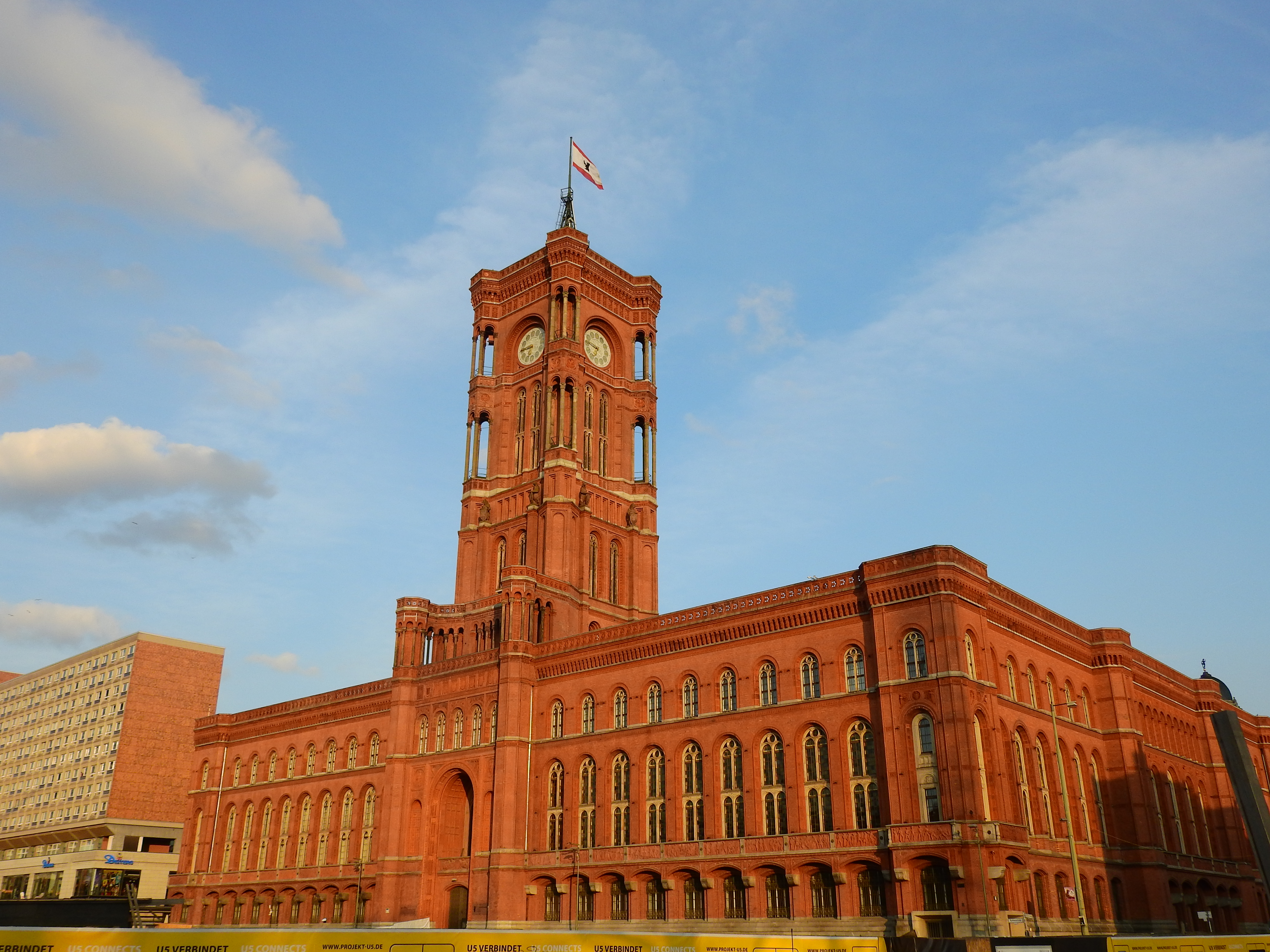 Wikimedia Conference 2017 in Berlin, Germany.